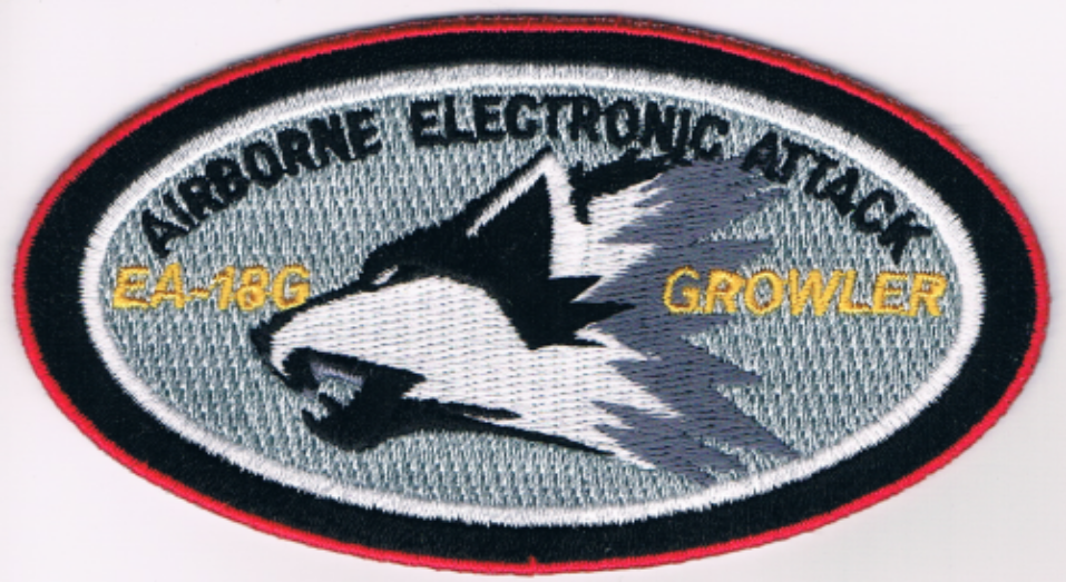 Cloth badge of the EA-18G growler. Original size: 106mm wide, 57mm high.